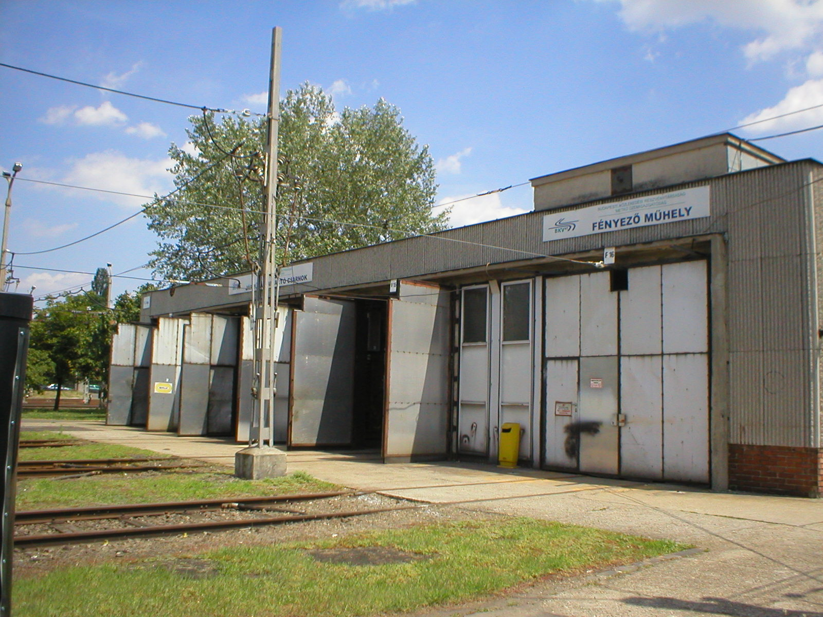 Depot of the Budapest Földalatti